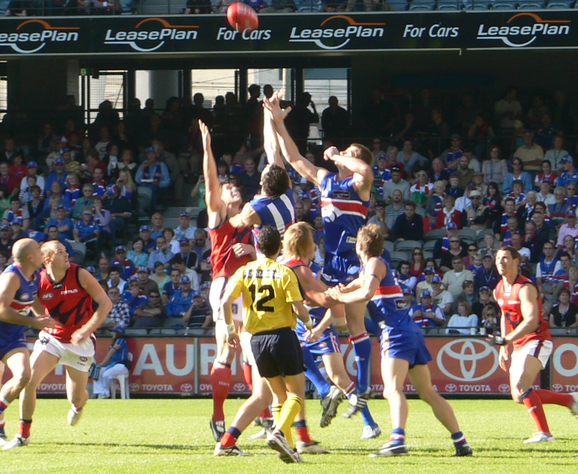 Players contest the ruck in an AFL match between the Melbourne Demons and Western Bulldogs at the Telstra Dome. Rucks: Melbourne Player : Jeff White. Western Bulldogs: Ryan Hargrave and Peter Street